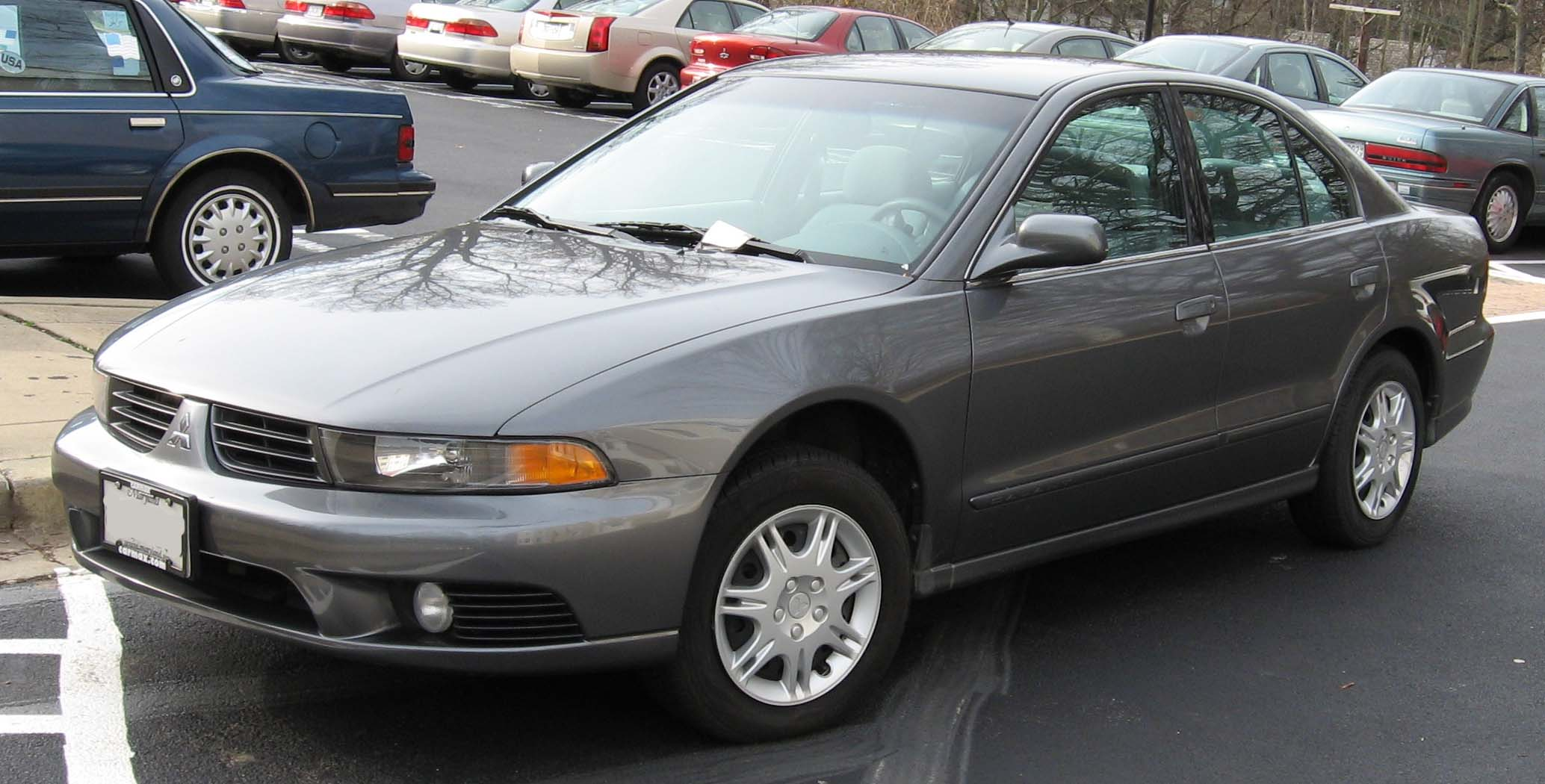 2002-2003 Mitsubishi Galant photographed in USA.